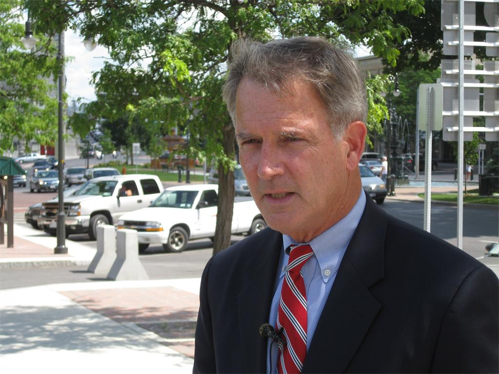 Tony Woods at West Point